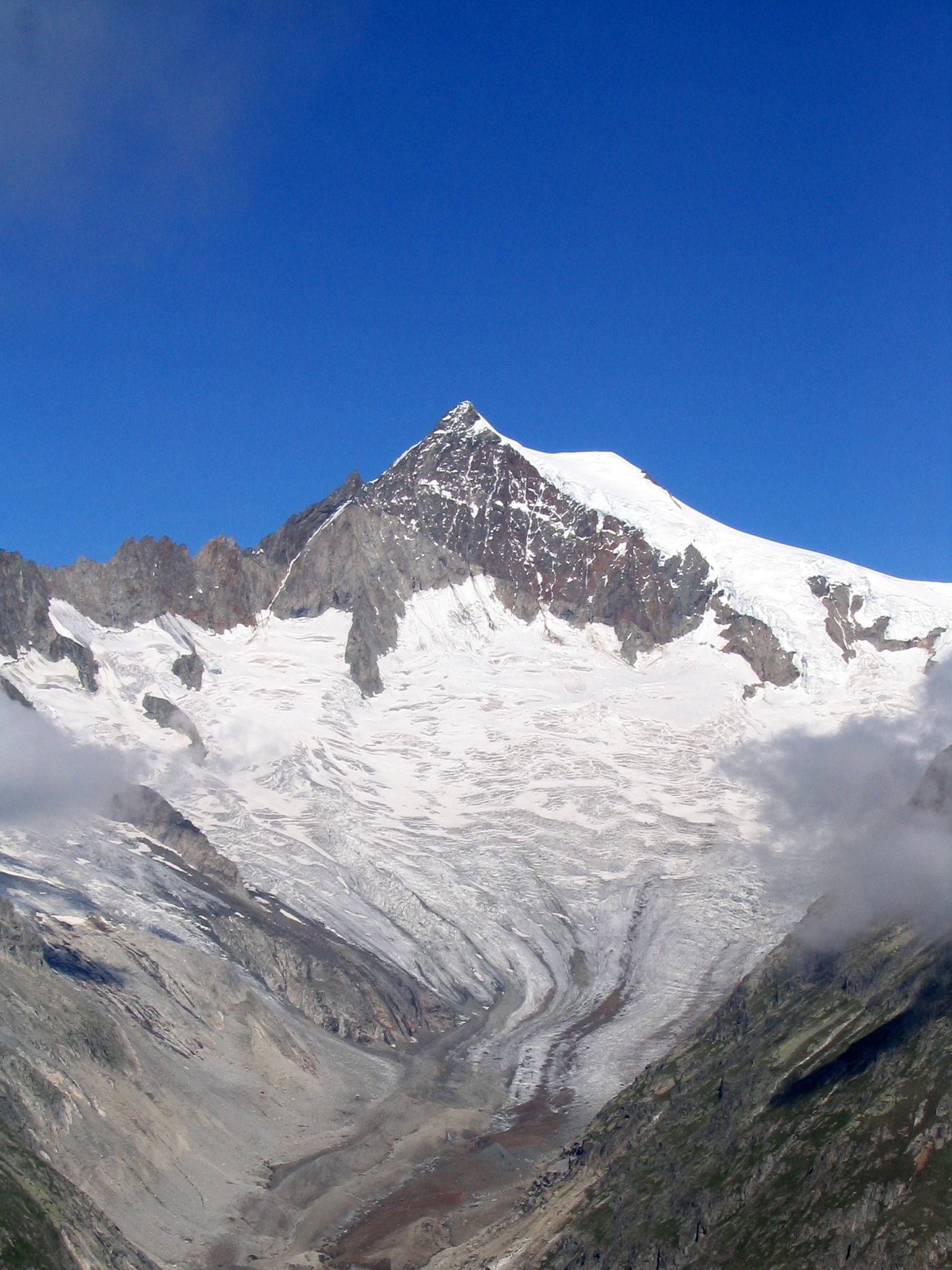 Aletschhorn (4.195 m, Bernese Alps, South-east side) and Mittelaletschgletscher, view from Eggishorn